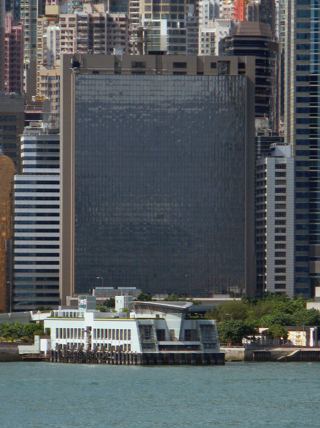 HK Central Harbour Building 海港政府大樓